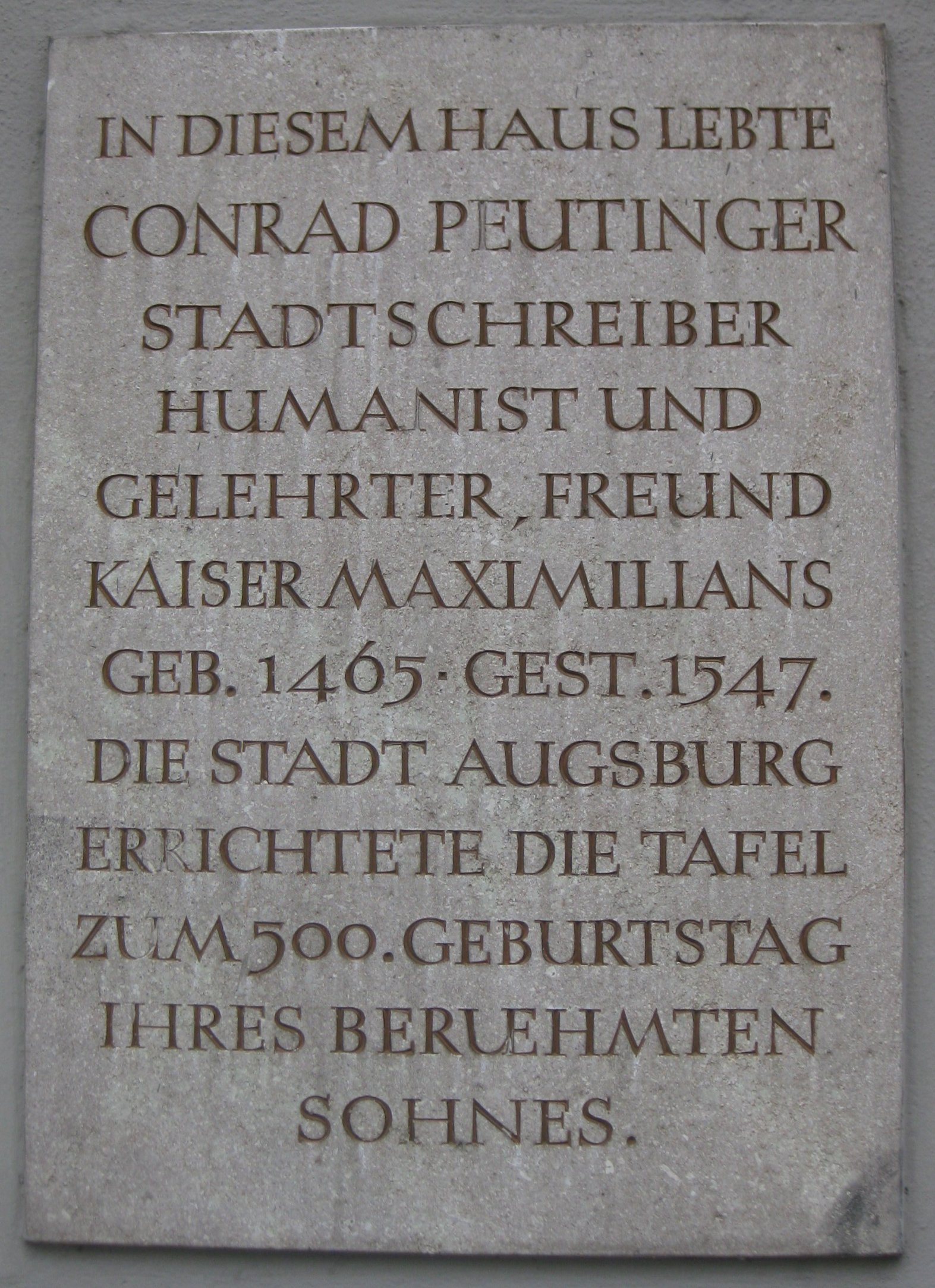 Plaque on Konrad Peutinger's dwelling in Augsburg